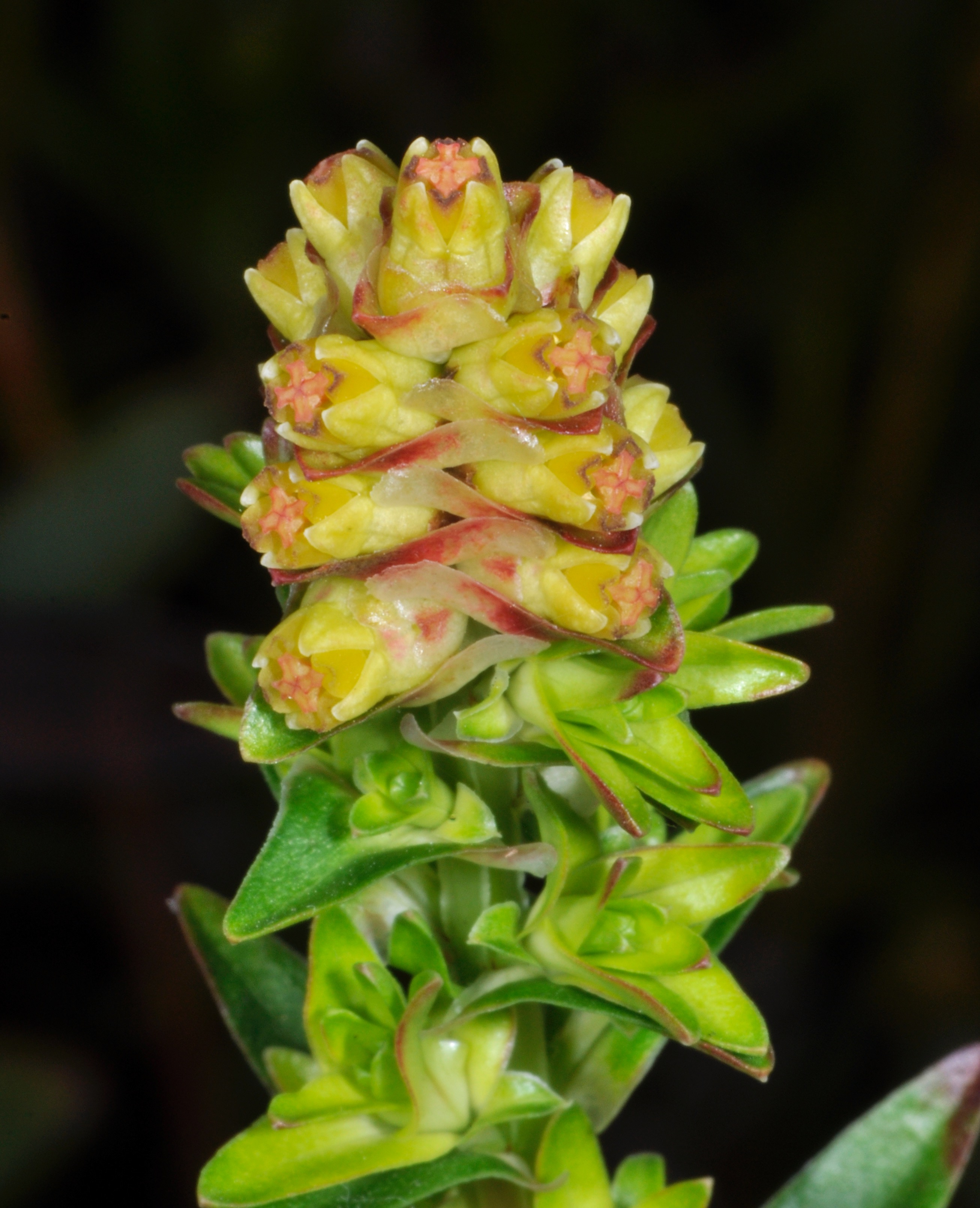 Penaea cneorum ssp. gigantea cultivated at Zurich botanical garden.